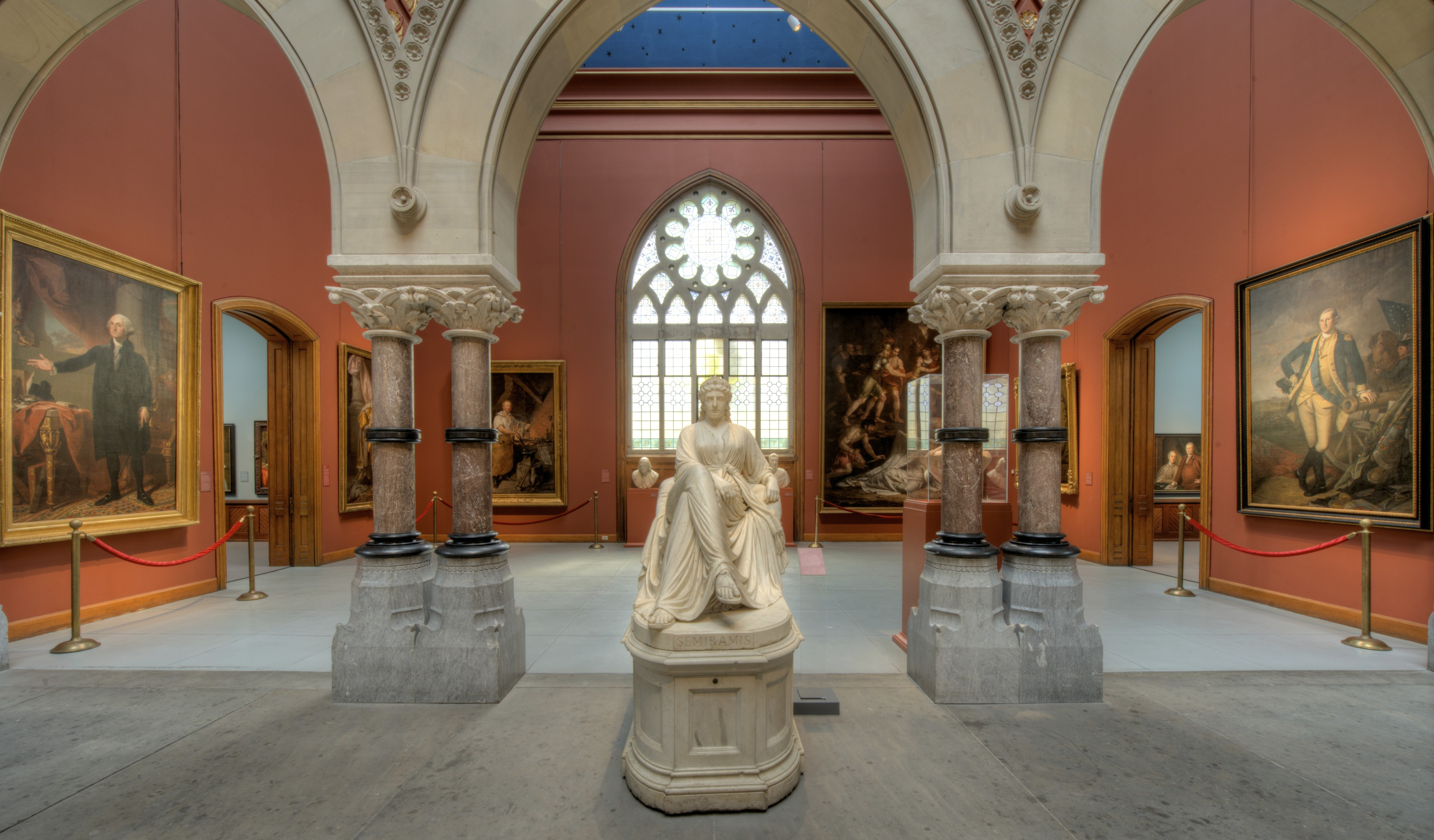 The Atrium opens into the center of three galleries in the front of the Academy - this is the Washington Foyer.